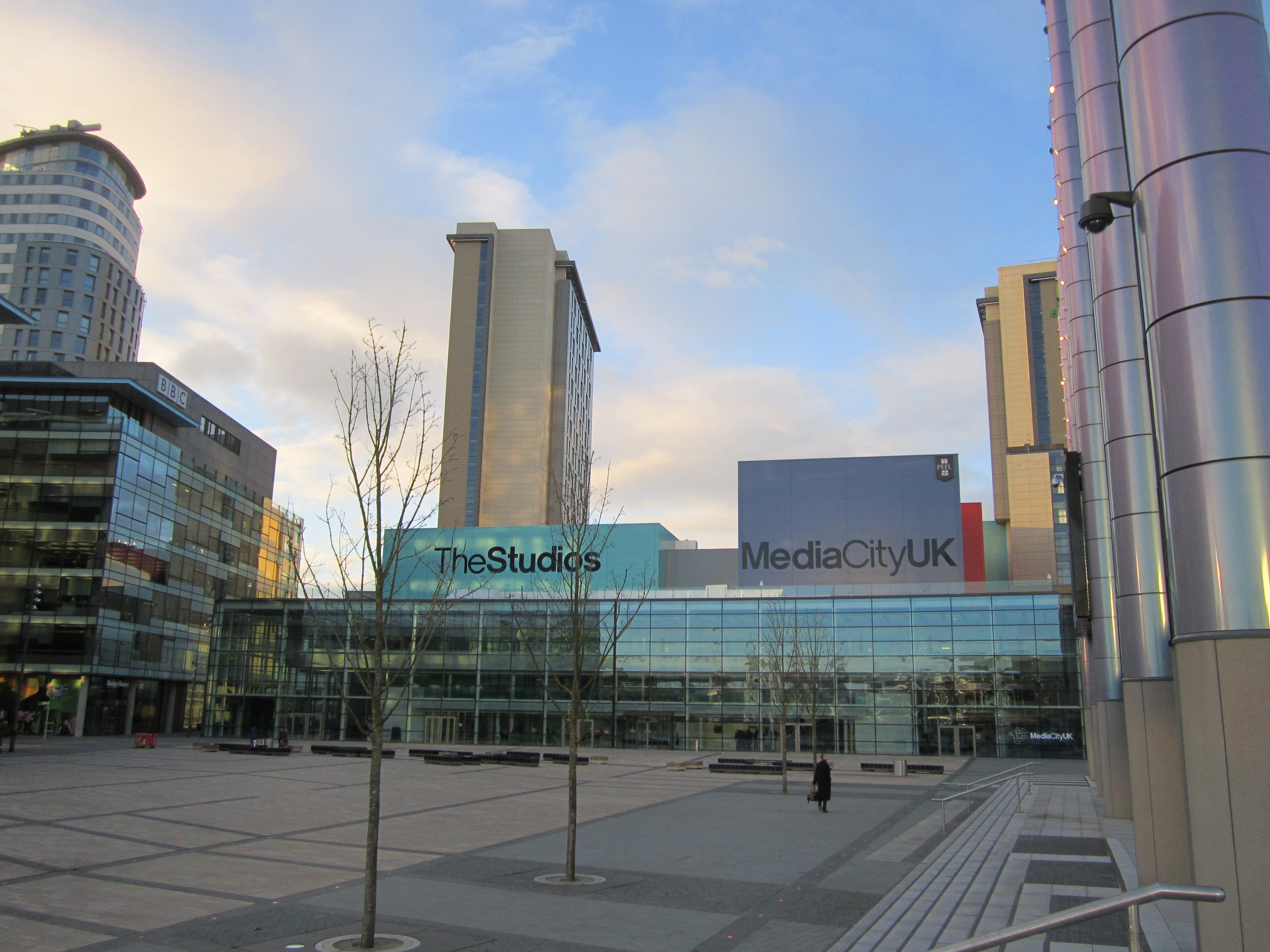 Photo taken at Mediacity:uk, Salford Quays, Greater Manchester, England.